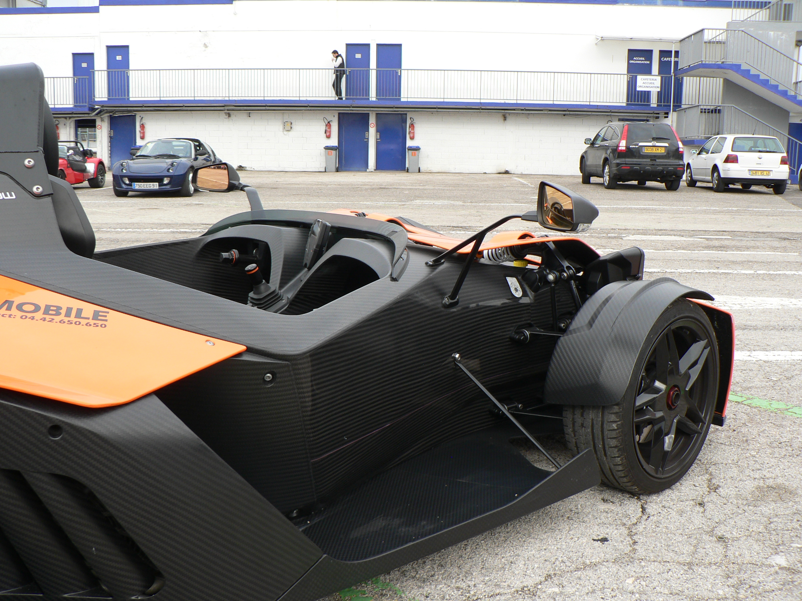 Partial view of a KTM X-Bow